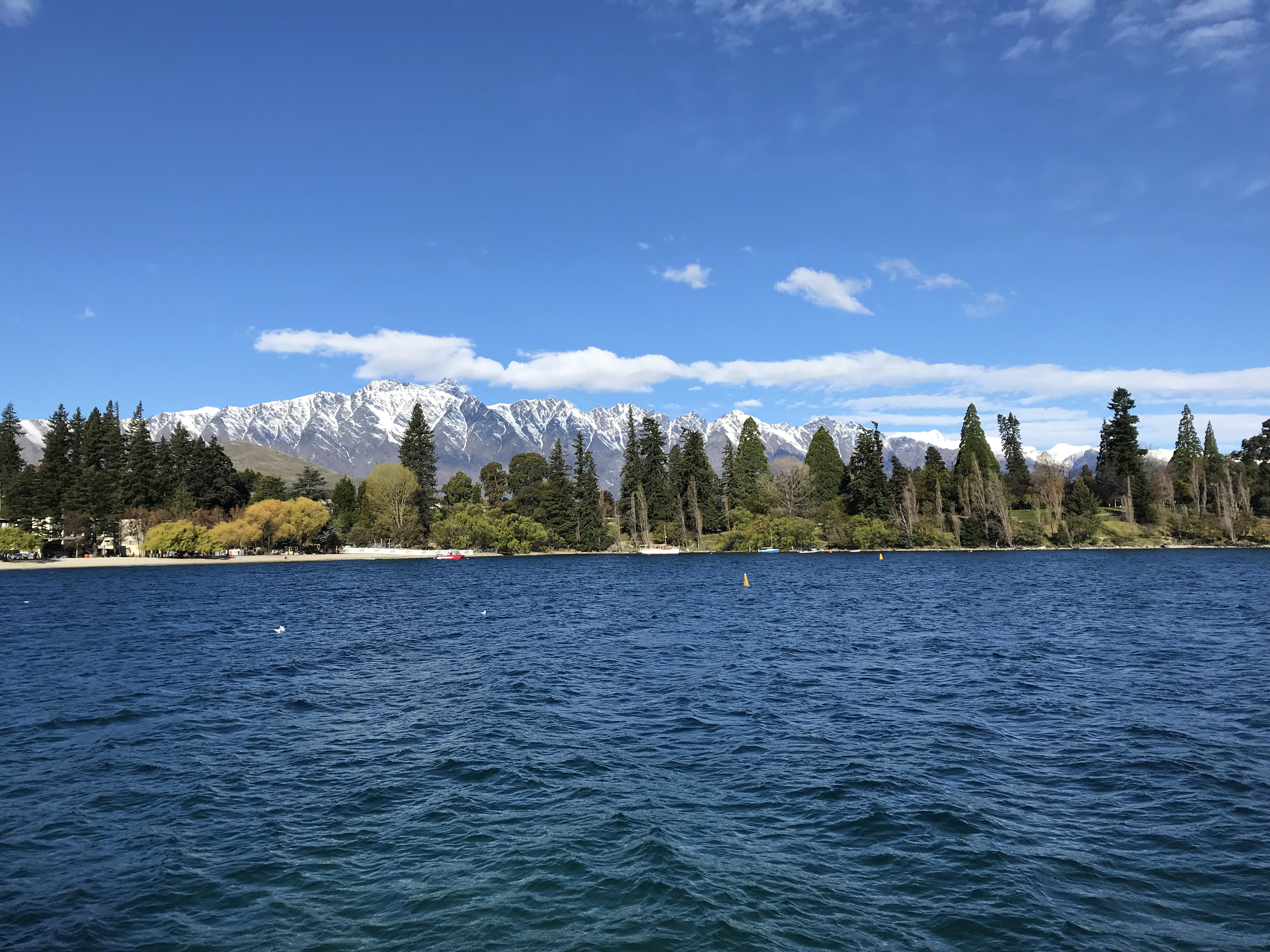 Lake Wakatipu and Remarkable Mountains, Queenstown